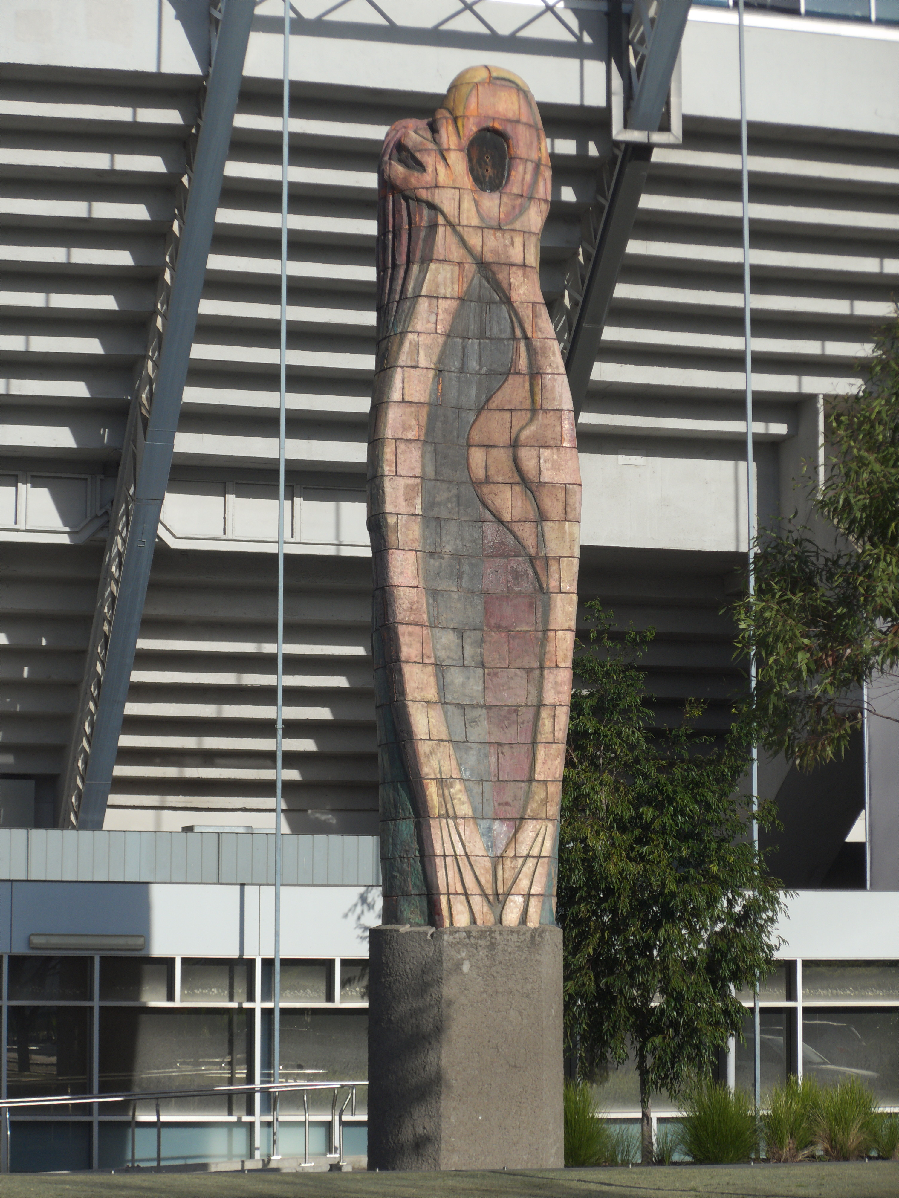 "Olympic Pylon" by Arthur Boyd at the side of the Holden Centre in Olympic Boulevard, Melbourne. This ceramic sculpture was installed in 1956 in the forecourt of the former Melbourne Olympic Swimming Stadium. Victorian Heritage Register number H1977 (info from [1].)